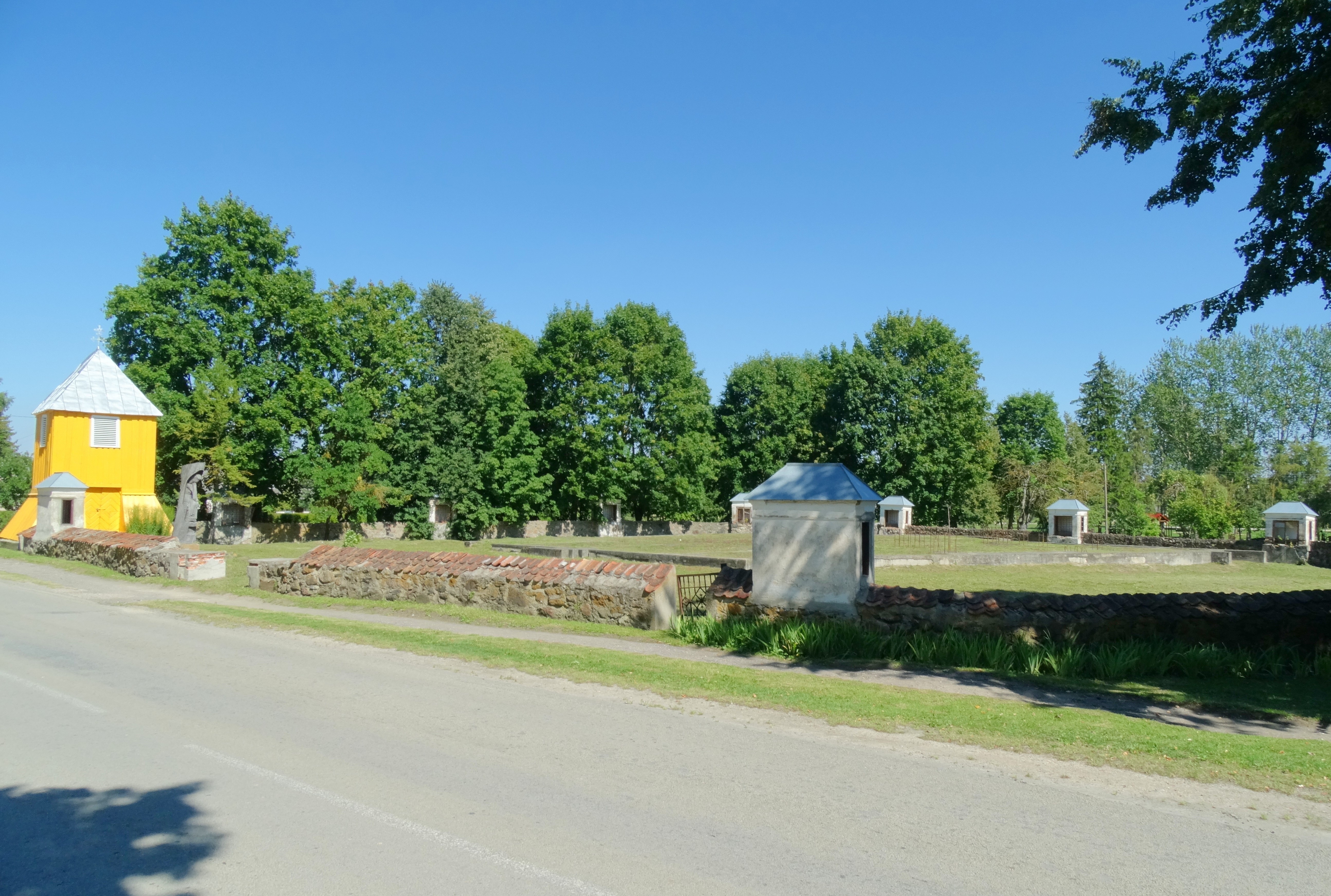 Place of the former Church of Saint Lawrence, churchyard, Kriukai, Joniškis District, Lithuania